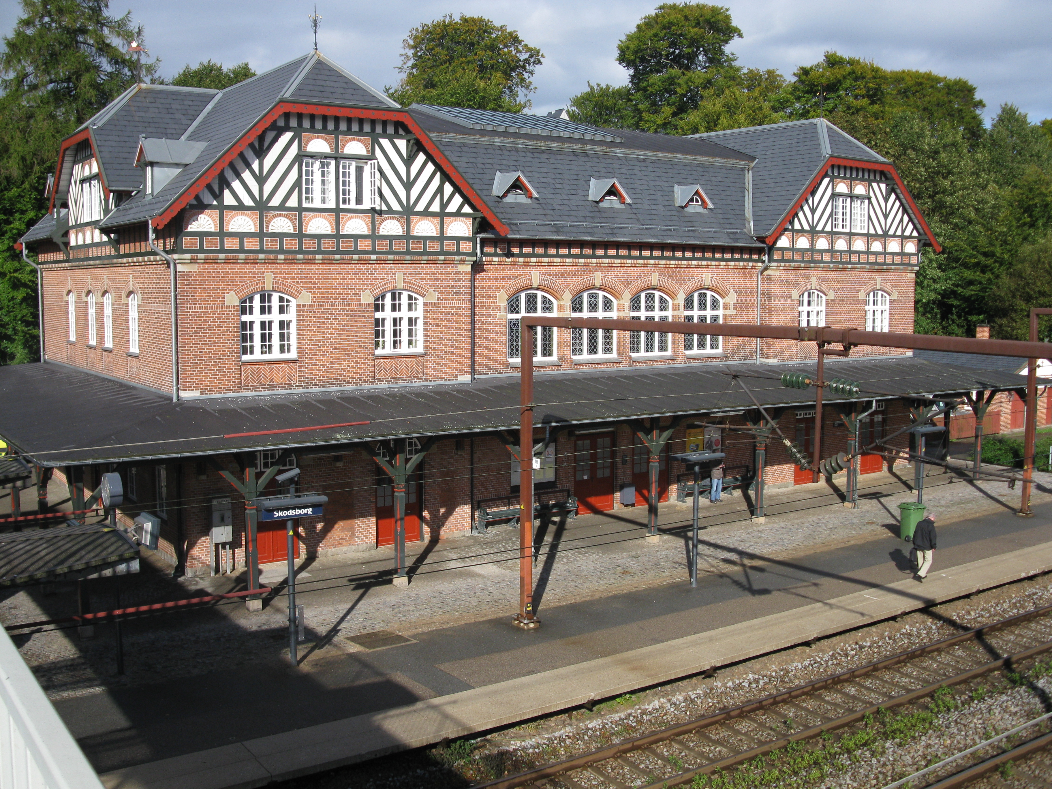 Railway station in Skodsborg, Denmark, Europe